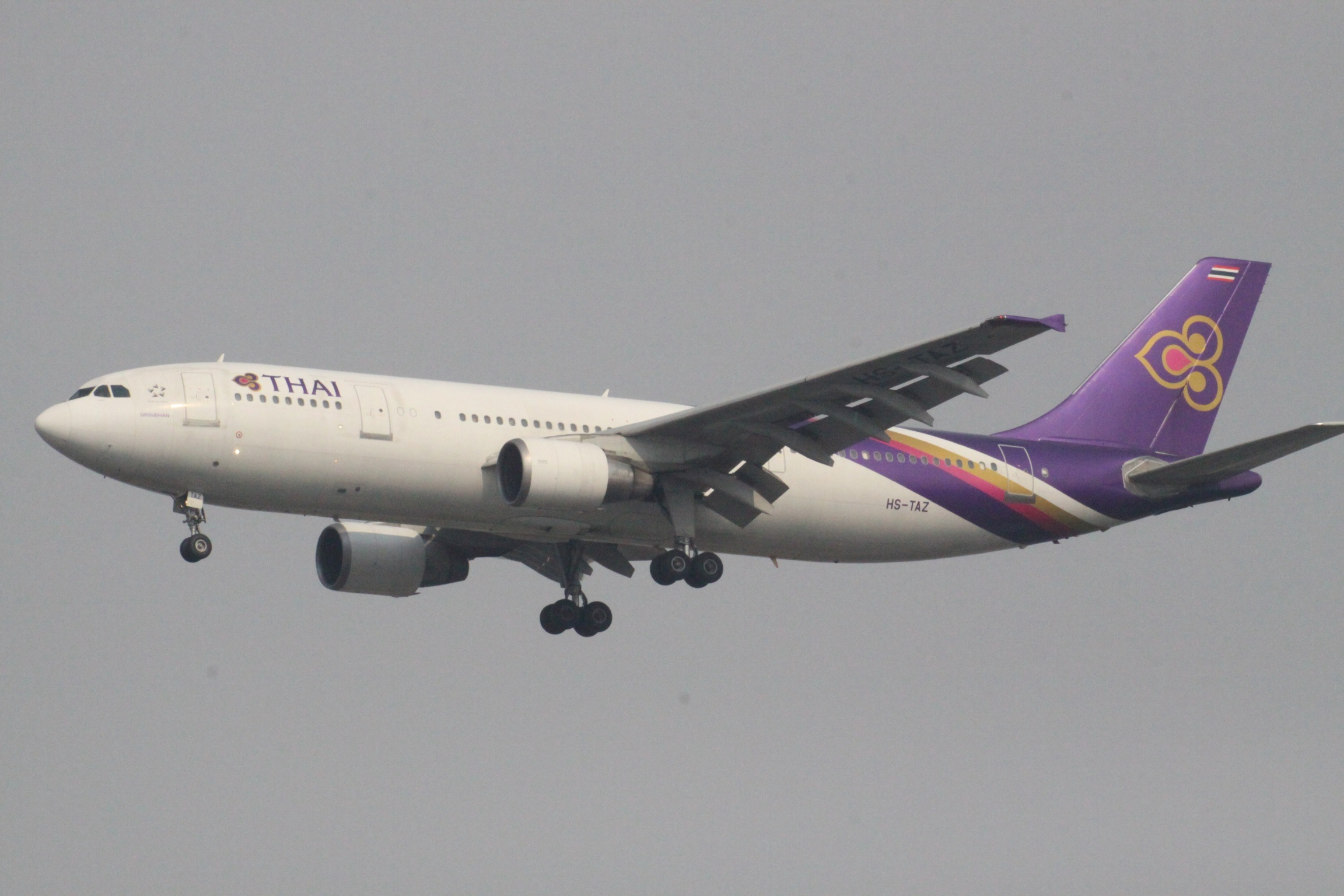 At Bangkok Suvarnabhumi International Airport